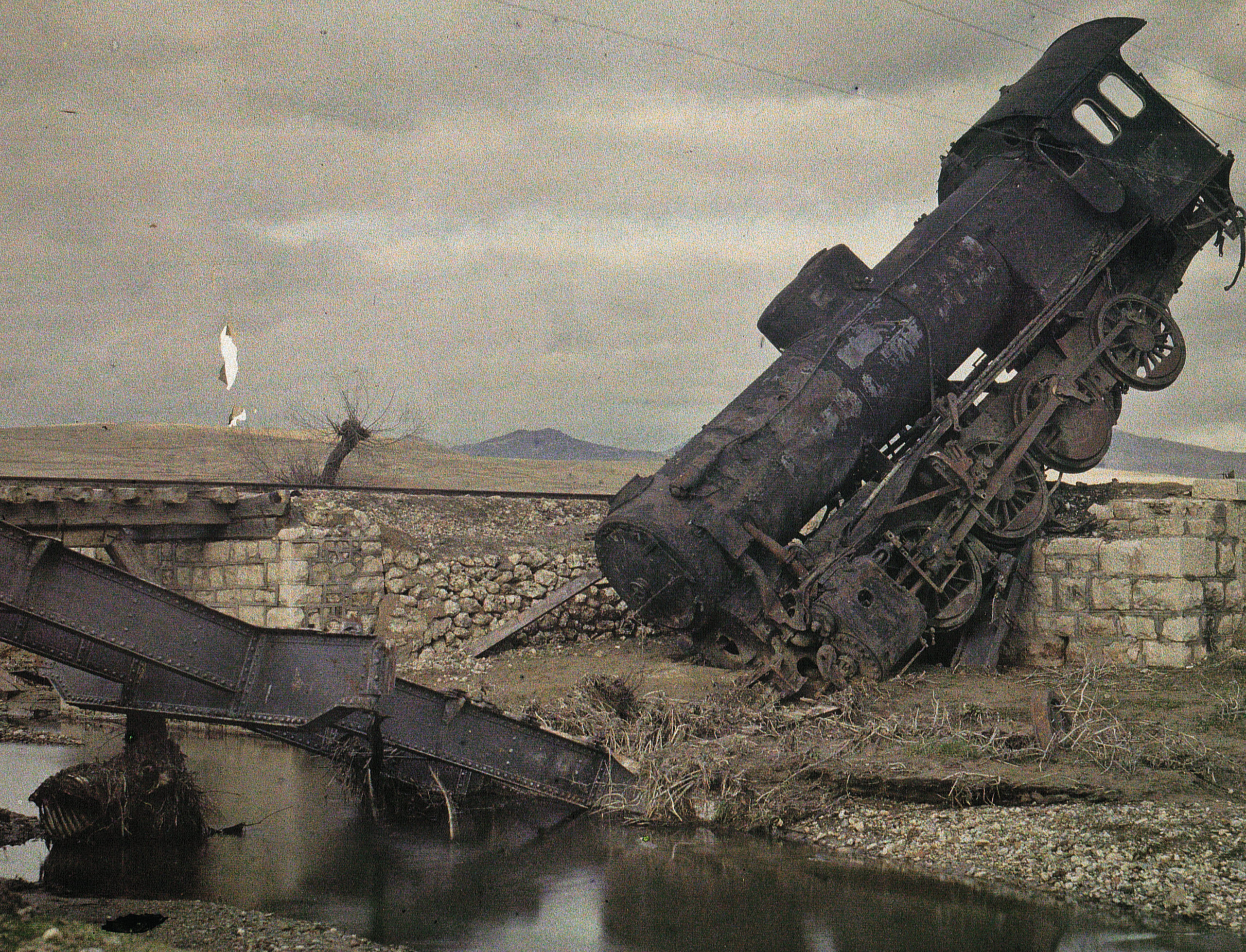 Uşak, Turkey (Frédéric Gadmer, Albert Kahn Coll.) The Greek army fled westward in the fall of 1922, destroying the countryside. This locomotive in Uşak shows the devastation caused in this region during the Greek army retreat.